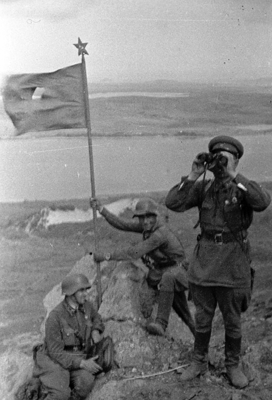 Battle of Lake Khasan-Red Army soldiers setting the flag on the Zaozernaya Hill